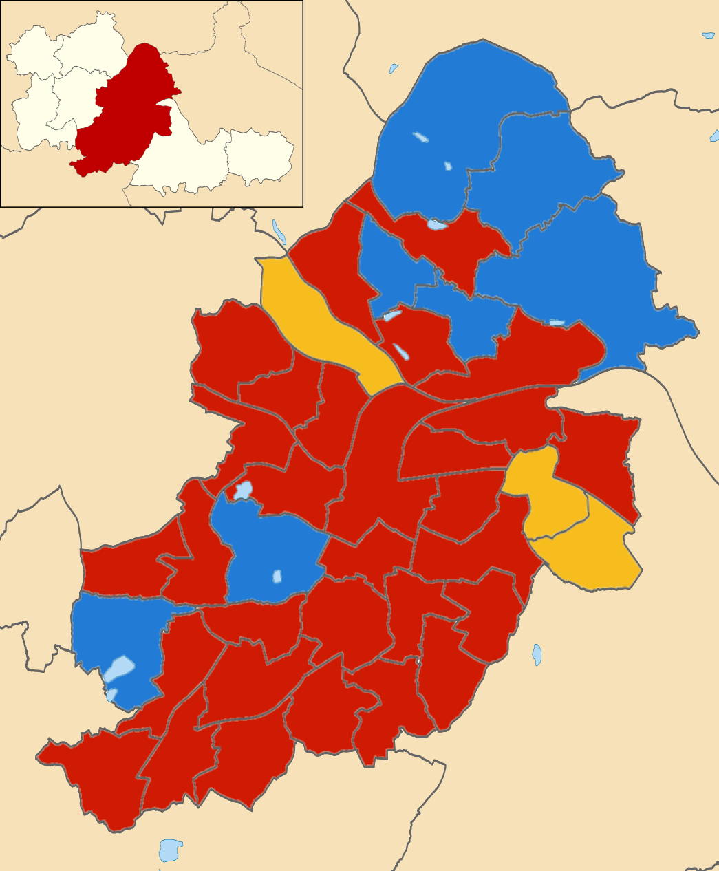 Results of the 2016 local elections in Birmingham Colours: Conservative Labour Liberal Democrat